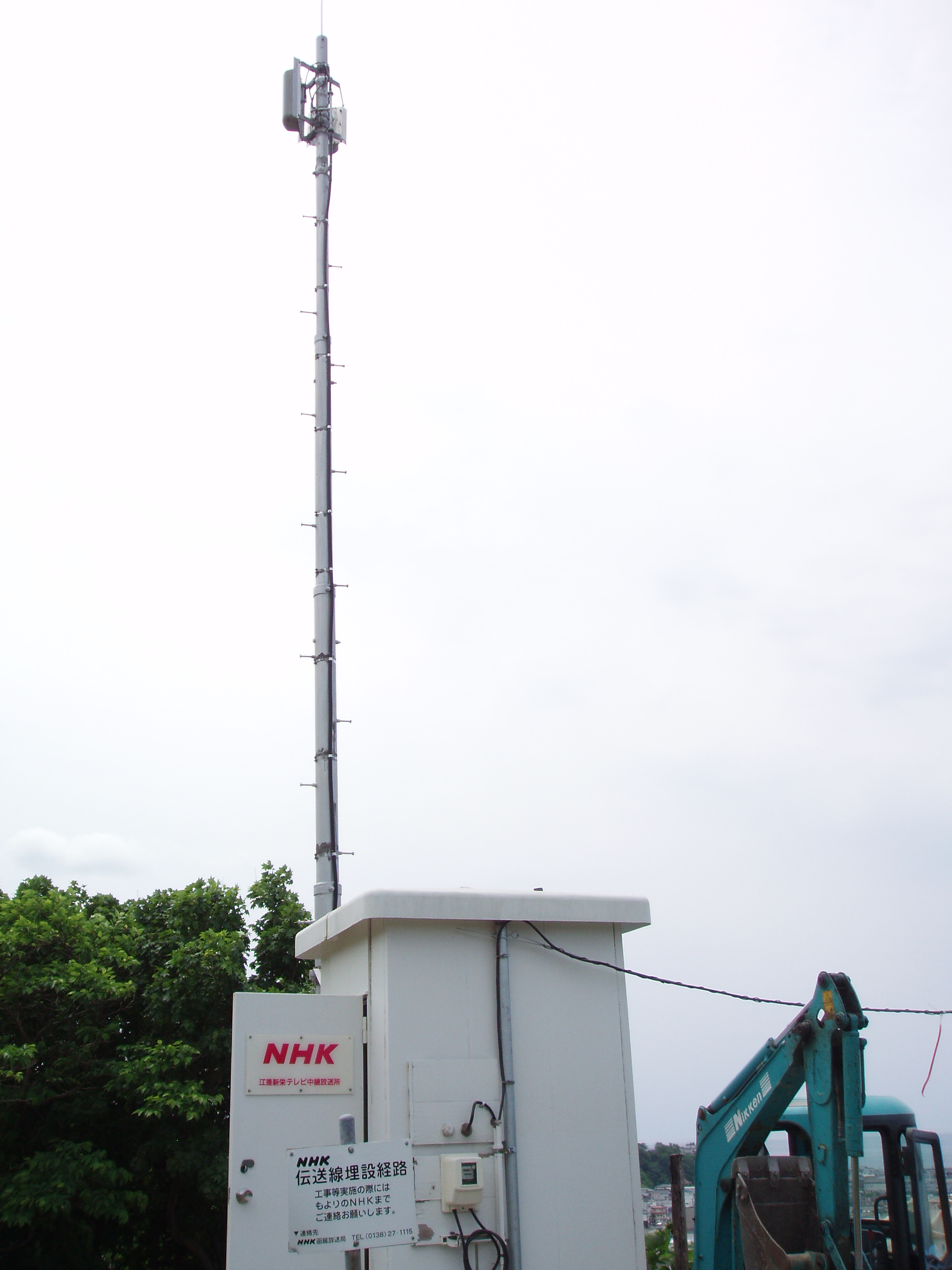 NHK Esashi Shin'ei Broadcasting Relay Station